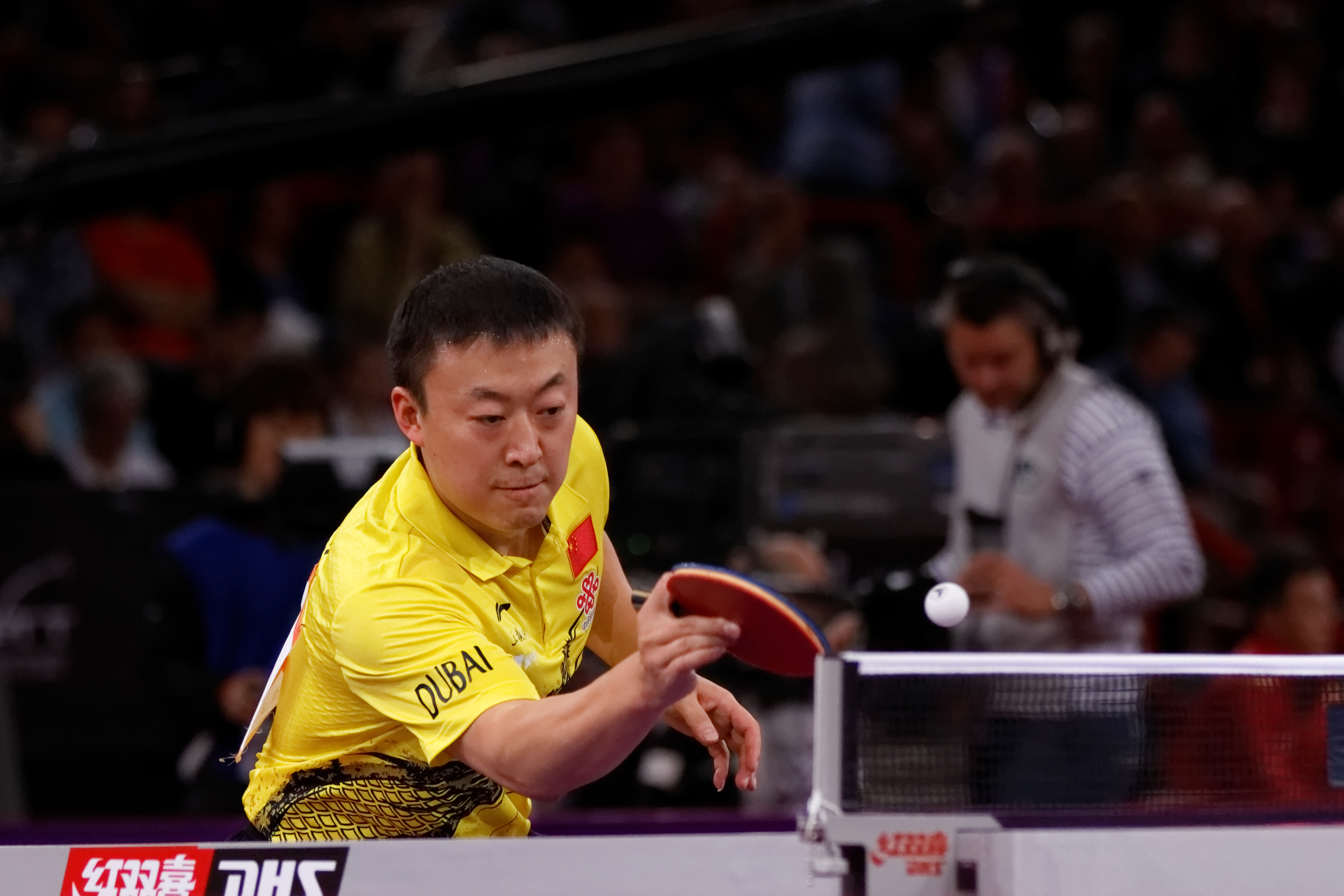 2013 World Table Tennis Championships, Paris. Men's Doubles Semifinals. Hao Shuai - Ma Lin vs Seiya Kishikawa - Jun Mizutani